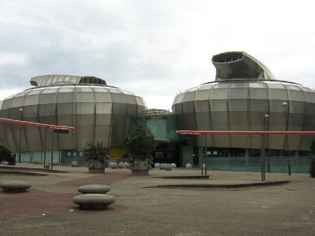 Former National Centre for Popular Music, Sheffield